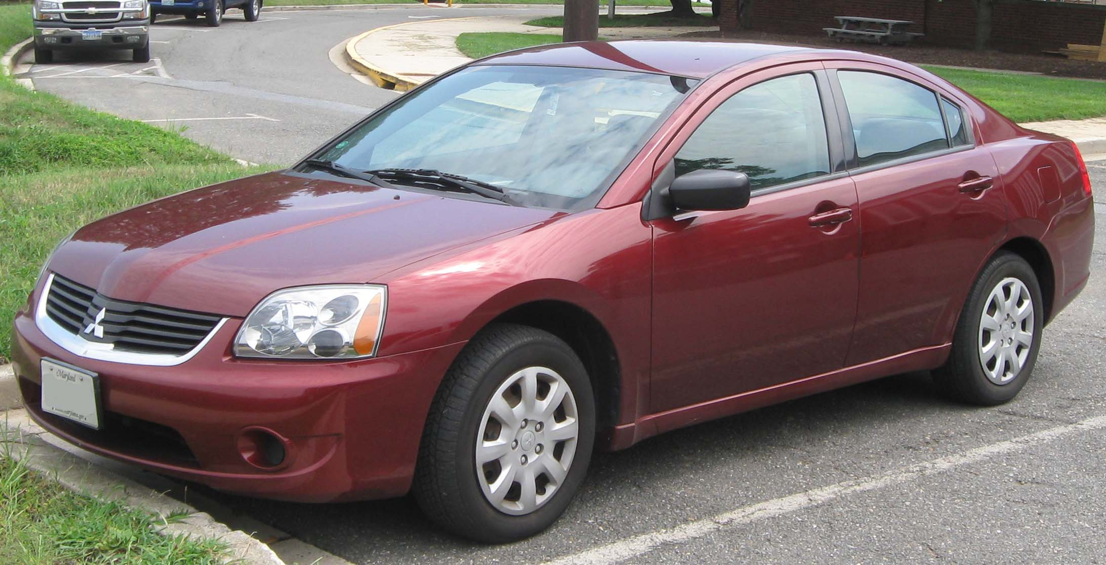 2007-2008 Mitsubishi Galant photographed in College Park, Maryland, USA.